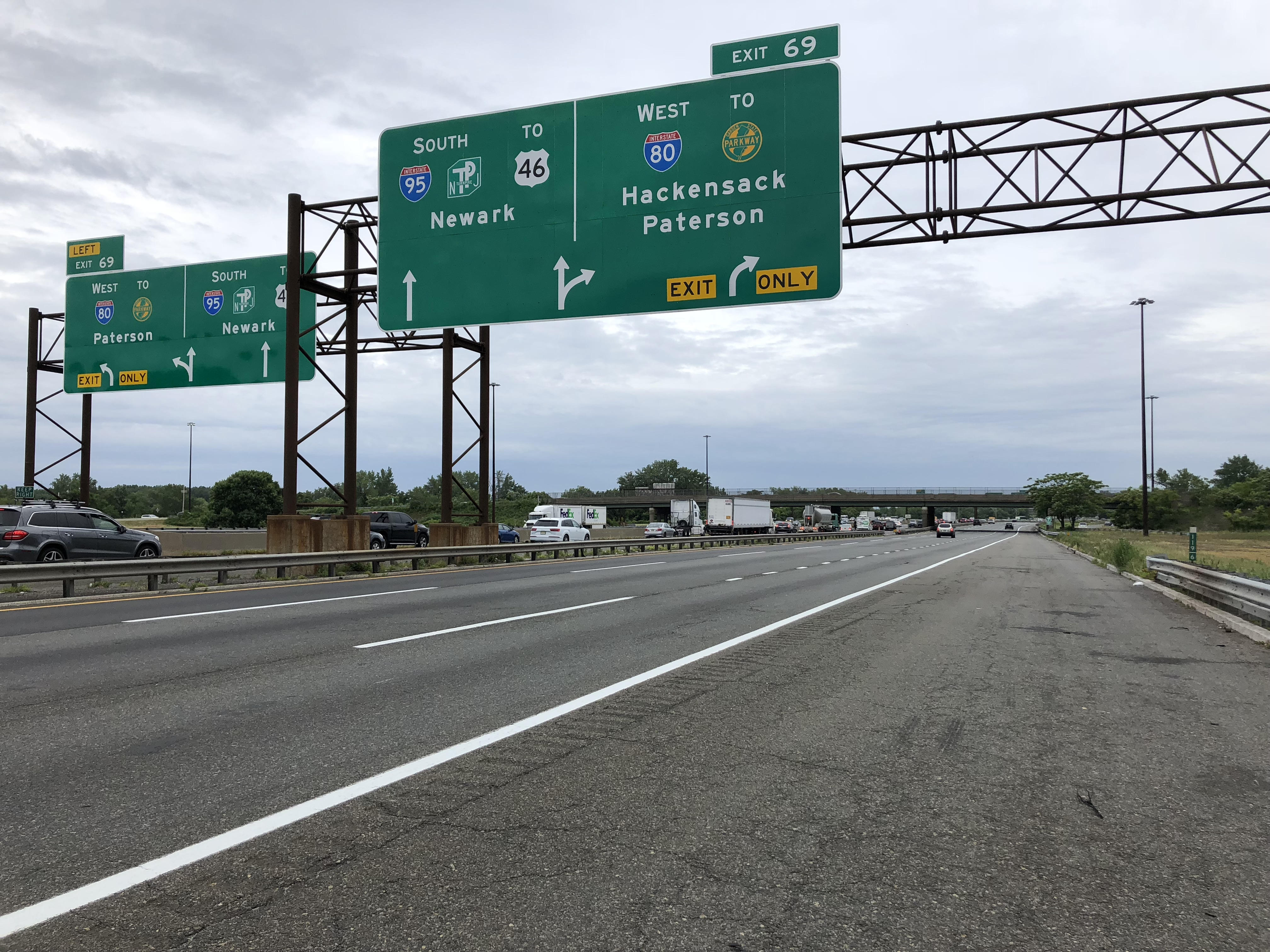 View south along the local lanes of Interstate 95 (Bergen-Passaic Expressway) just north of Exit 69 (WEST Interstate 80, To Garden State Parkway, Hackensack, Paterson) in Teaneck Township, Bergen County, New Jersey